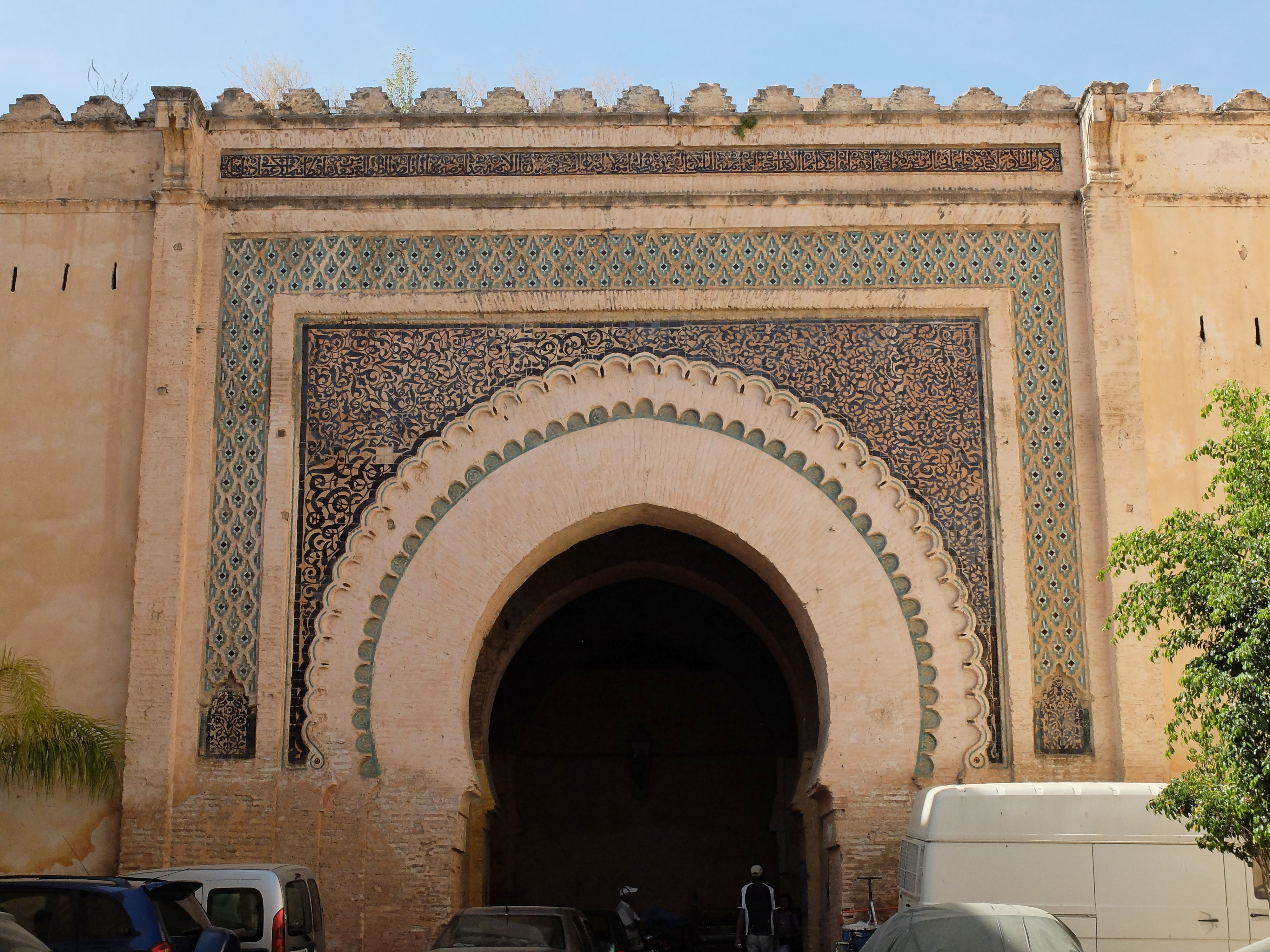 Bab Dar Lakbira, southern gate and historically the main entrance to the Dar Kbira palace, Meknes